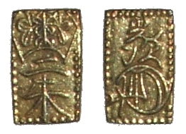 Manen-2shuban